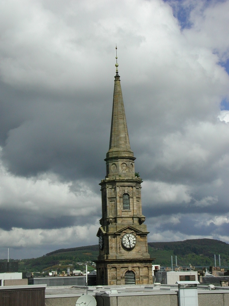 Clock Tower steeple in Bridge Street, Inverness, Scotland.